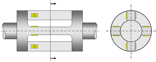 block diagram of torque sensor with cage spring element